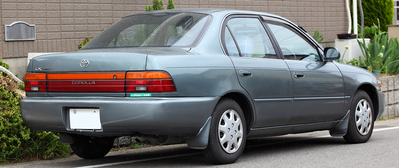 Toyota Corolla 4 door sedan 1.5 LX Limited ( AE100 )